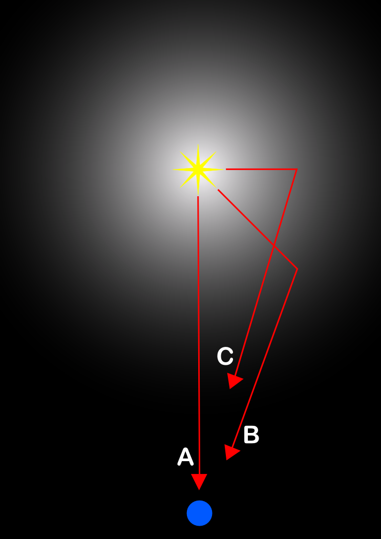 Illustration of the geometry of a light echo